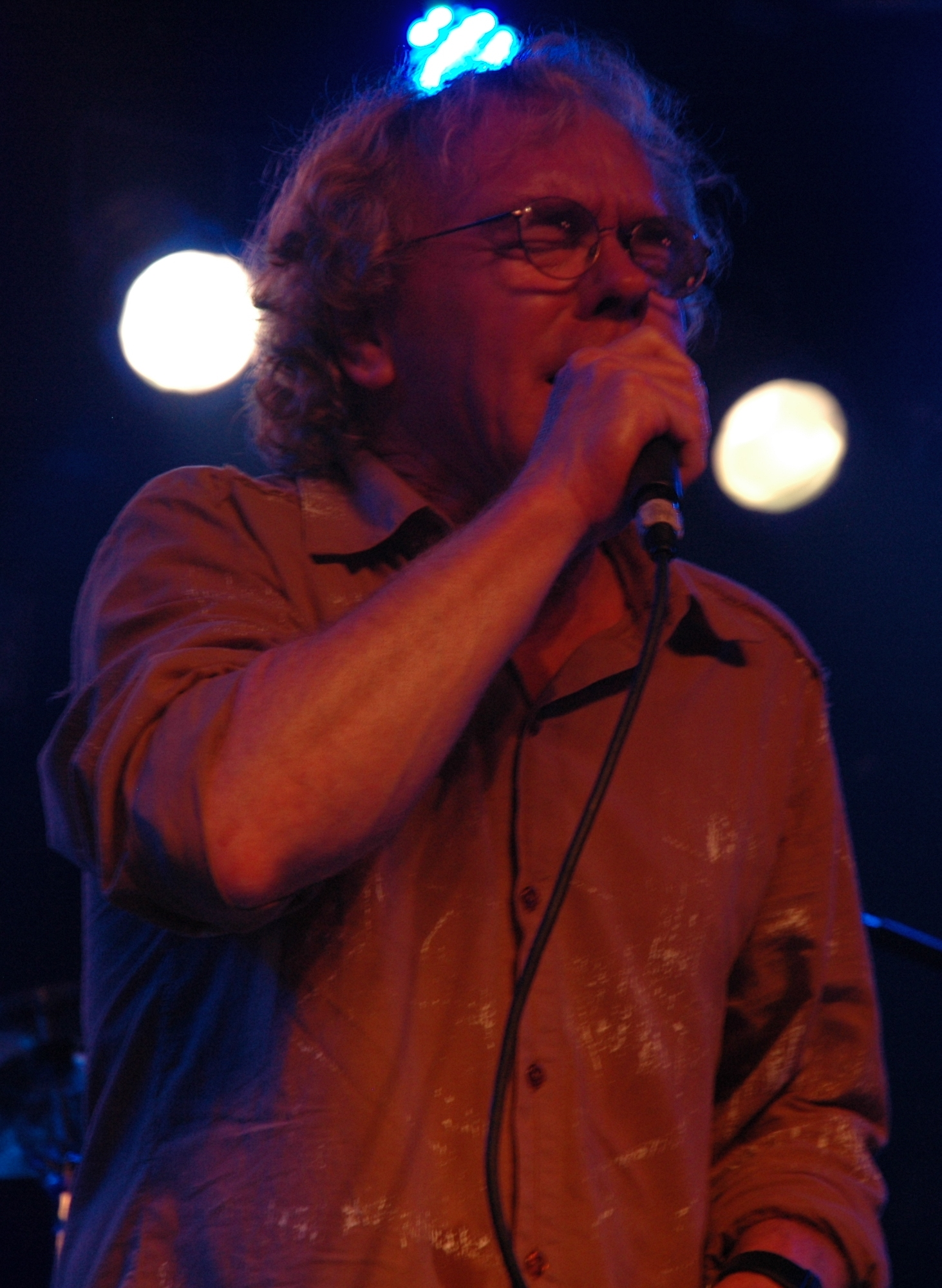 Dave Pattison performing at the Culture Room in Fort Lauderdale, FL